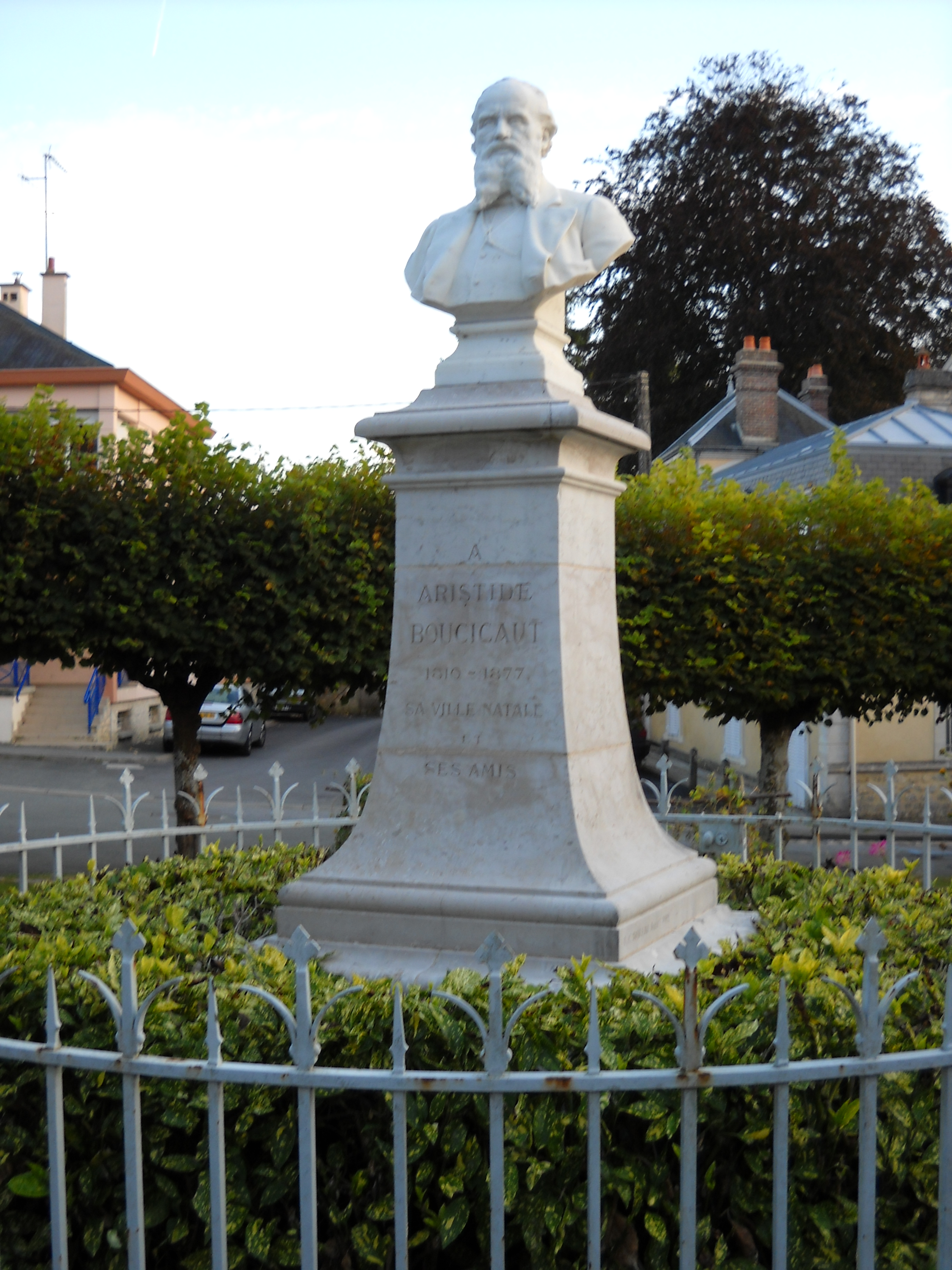 A statue of Aristide Boucicaut, in Bellême, Orne, France.